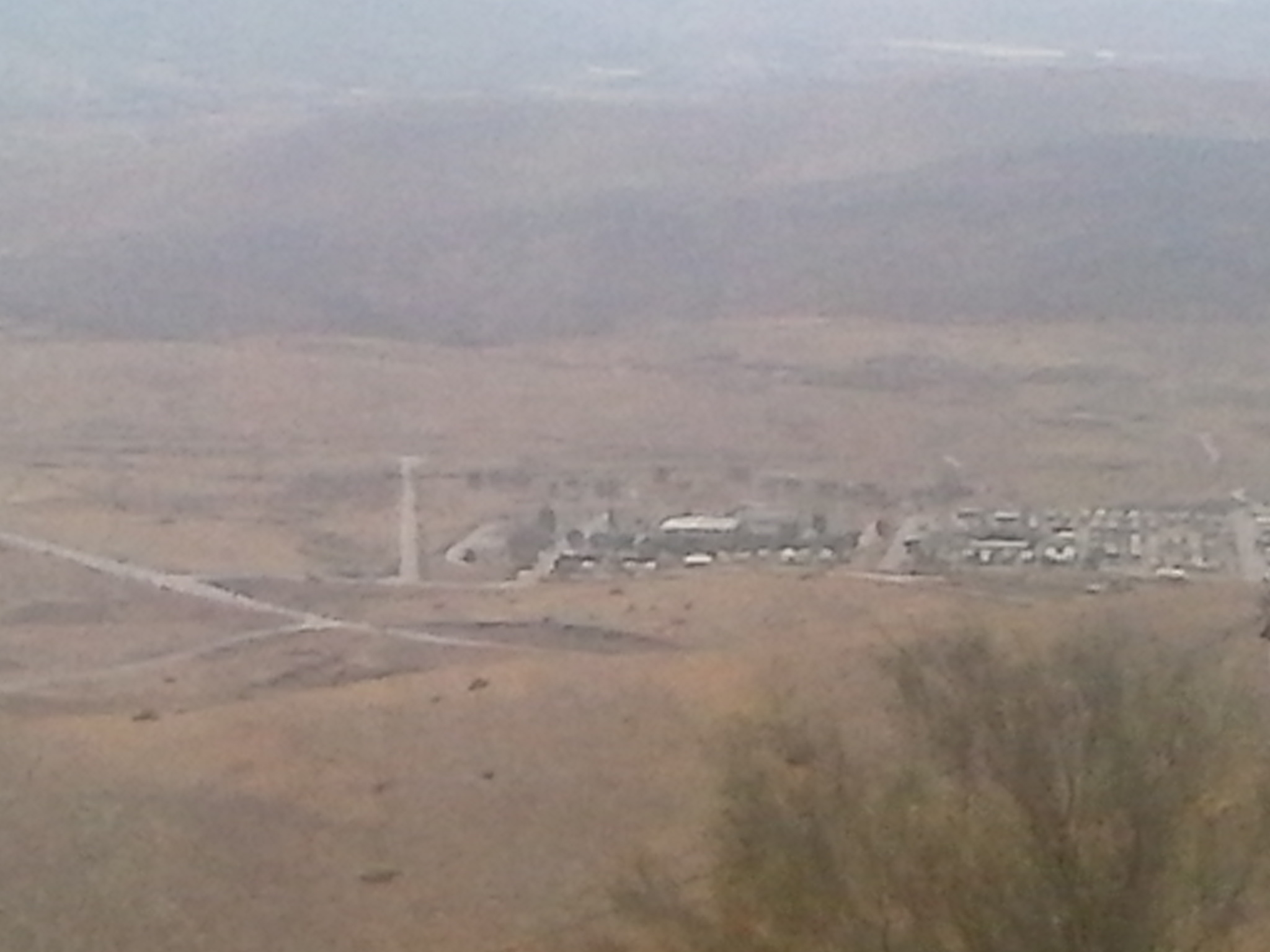 Bkaot base.